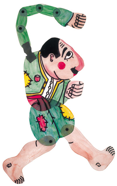 Photograph of Karaghiozis toy shadow puppet